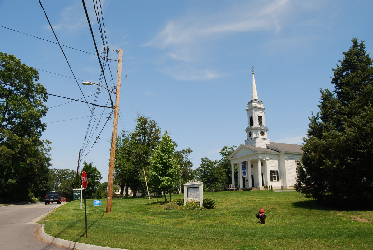 Historic church, Sherborn, Massachusetts